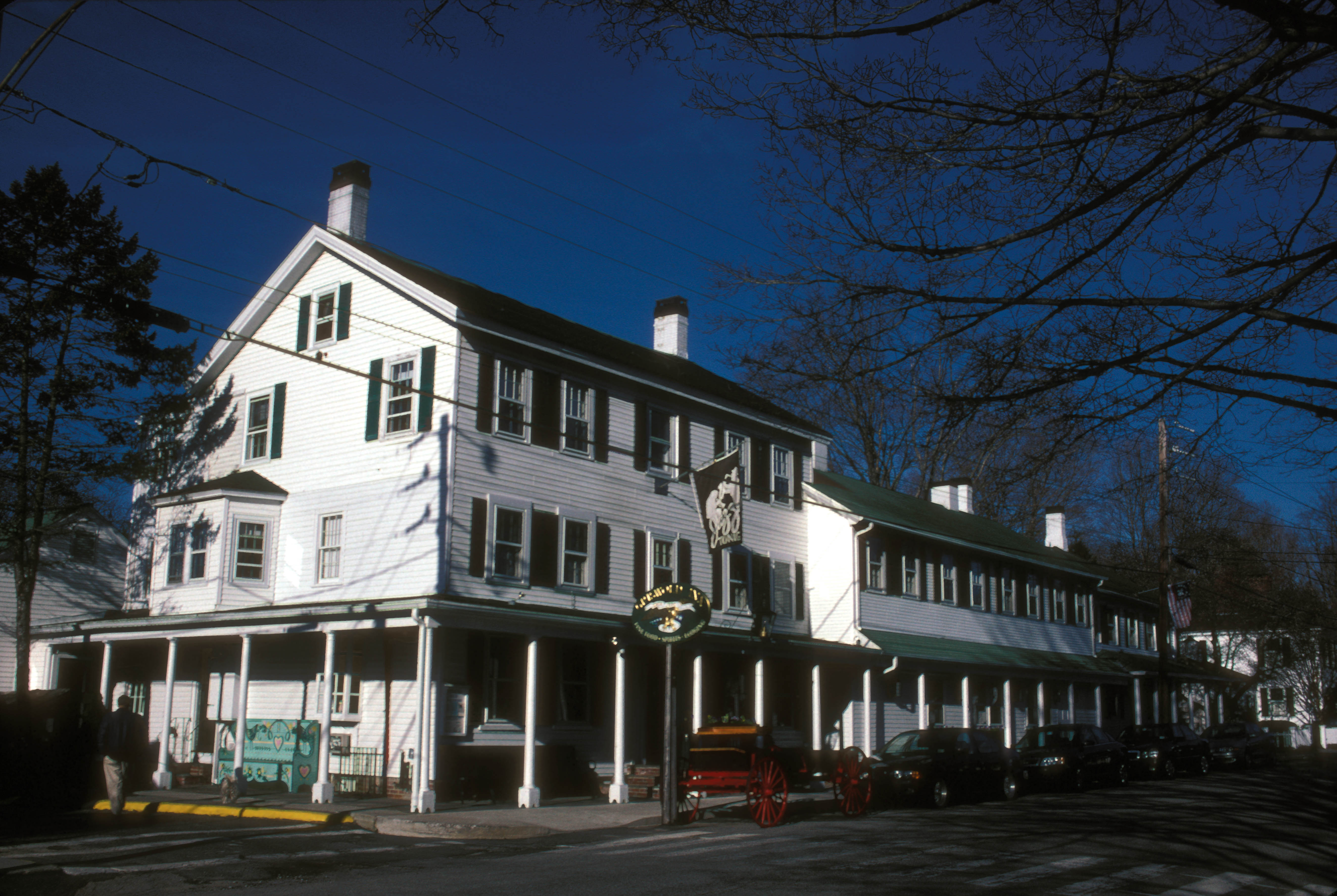 ESSEX WAS AN EARLY SEA-FARING TOWN WHICH REACHED SITS ZENITH AROUND 1815; GRISWOLD INN OPENED IN 1776 AND IS THE OLDEST C0NTINUOUSLY OPERATED INN IN THE UNITED STATES